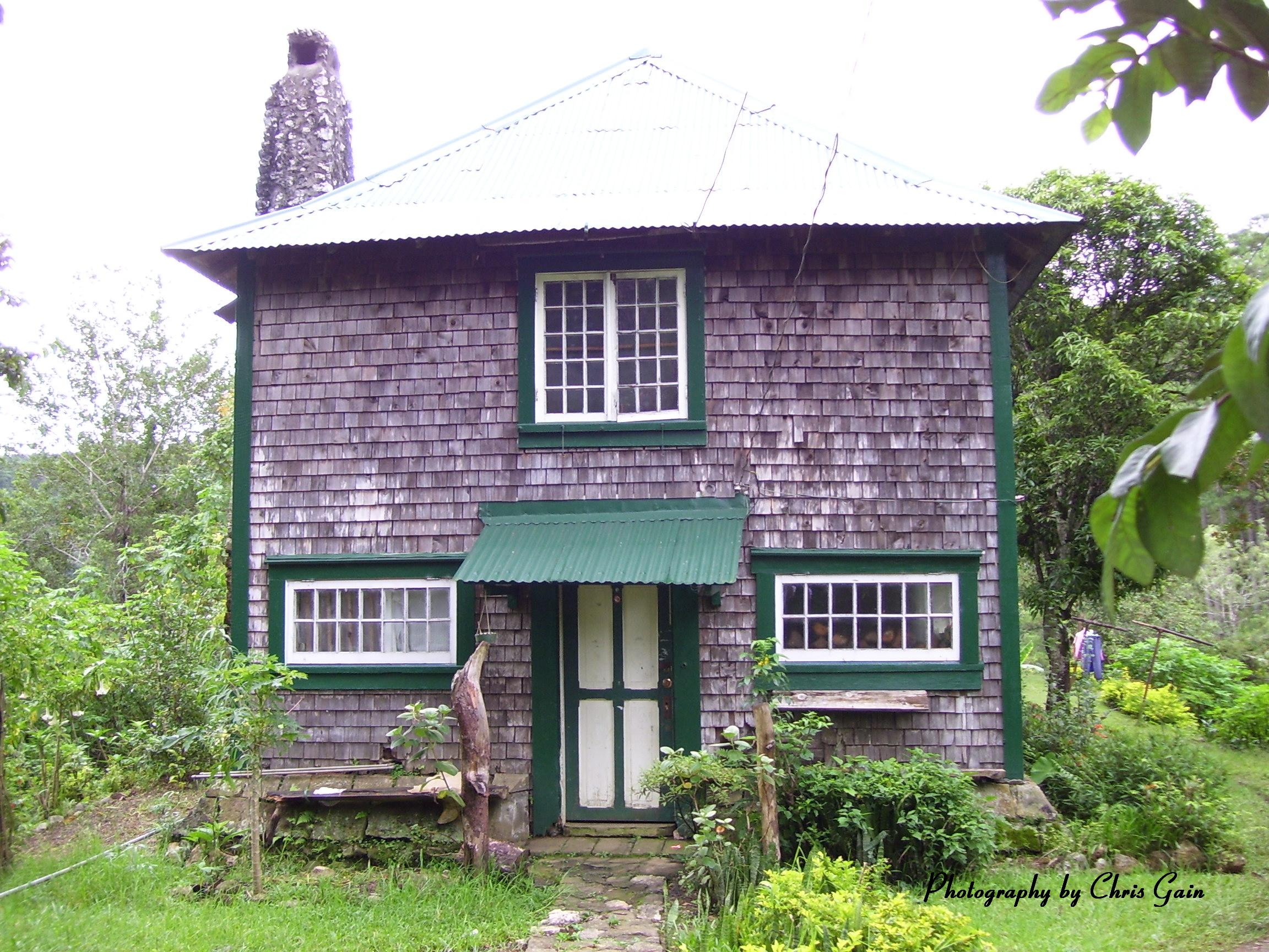 Former Episcopalian Seminary at Sagada, Mountain Province, Philippines, in 2007.